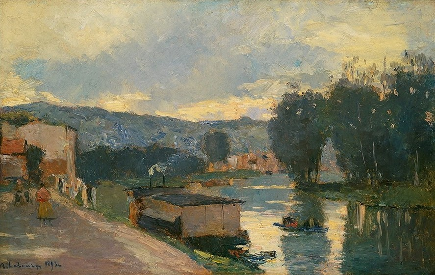 View of the Seine at Bas-Meudon (Vue de la Seine au Bas-Meudon) Oil on canvas